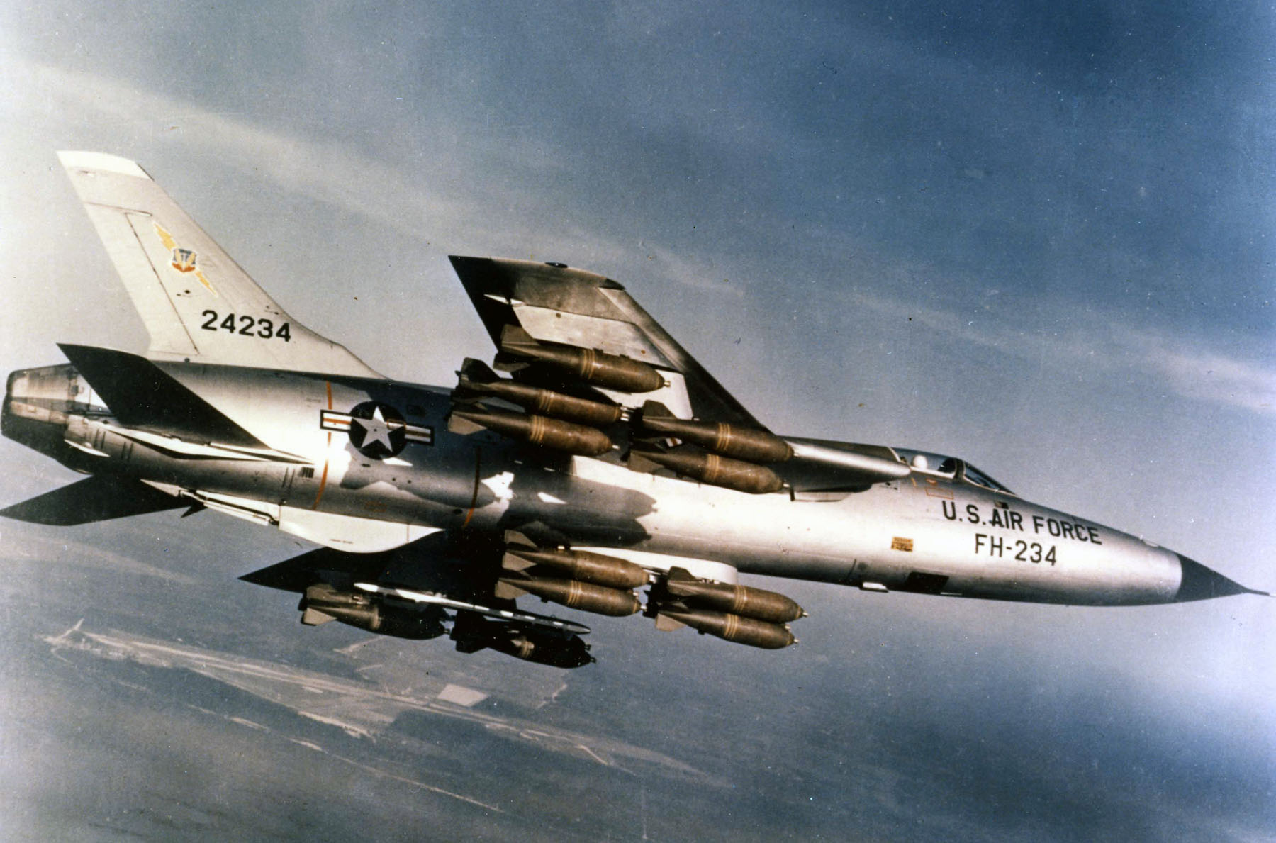 Republic F-105D-30-RE Thunderchief (SN 62-4234) in flight with a full bomb load of M117 750 lb bombs. Normally drop tanks were carried on the inboard wing pylons. This aircraft was shot down on 24 December 1968 over Laos while being assigned to the Wing Headquarters, 355th Tactical Fighter Wing, Takhli RTAFB. Major Charles R. "Dick" Brownlee was the pilot of the lead aircraft (s/n 62-4234, call sign "Panda 01") in a flight of four. The flight was conducting an afternoon strike mission against Route 911, between the Ban Karai Pass and the city of Ban Phaphilang, Khammouane Province, Laos. At 15:47h the aircraft attacked a truck moving along Route 911. 62-4234 was hit by anti-aircraft fire and caught fire. Major Brownlee's aircraft exploded at roughly the same time he ejected from his aircraft. The next day a rescue attempt of heavily injured or dead Brownlee failed, but a member of the rescue team, CMS Charles D. King, was captured, too. Both men are listed as missing in action. The location was on the northern edge of a large valley and just east of Route 911, approximately 16 km southwest of Ban Thapachon (location 170600N 1055600E).